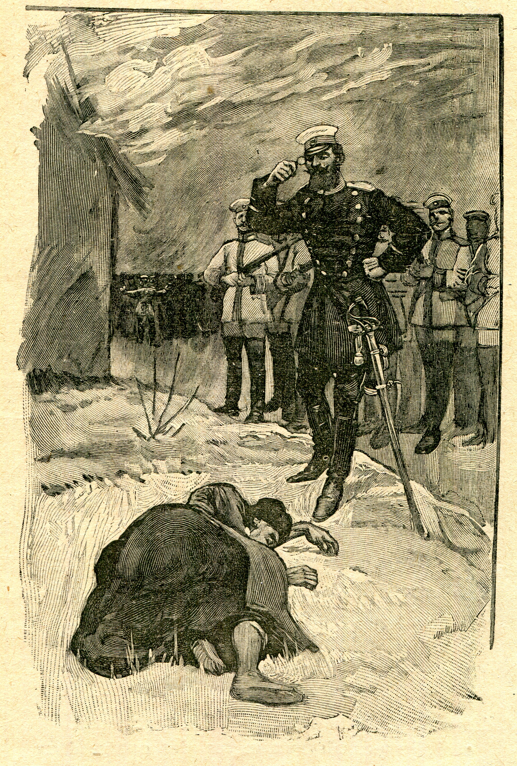 Illustration from G. de Maupassant's story "La Mere Sauvage"